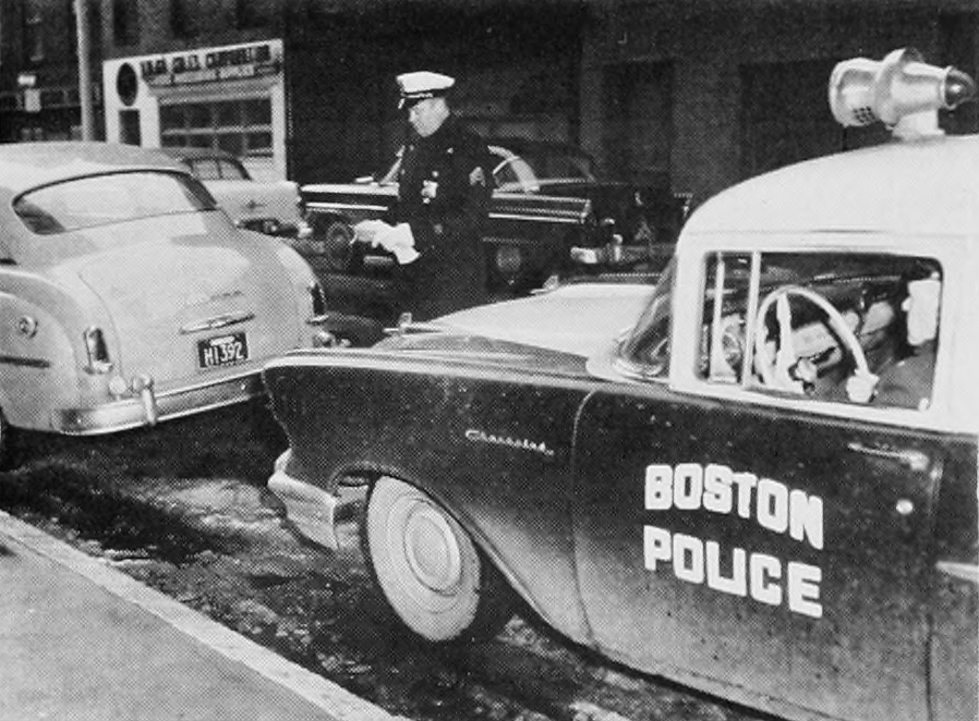 Boston Police investigate an abandoned stolen car